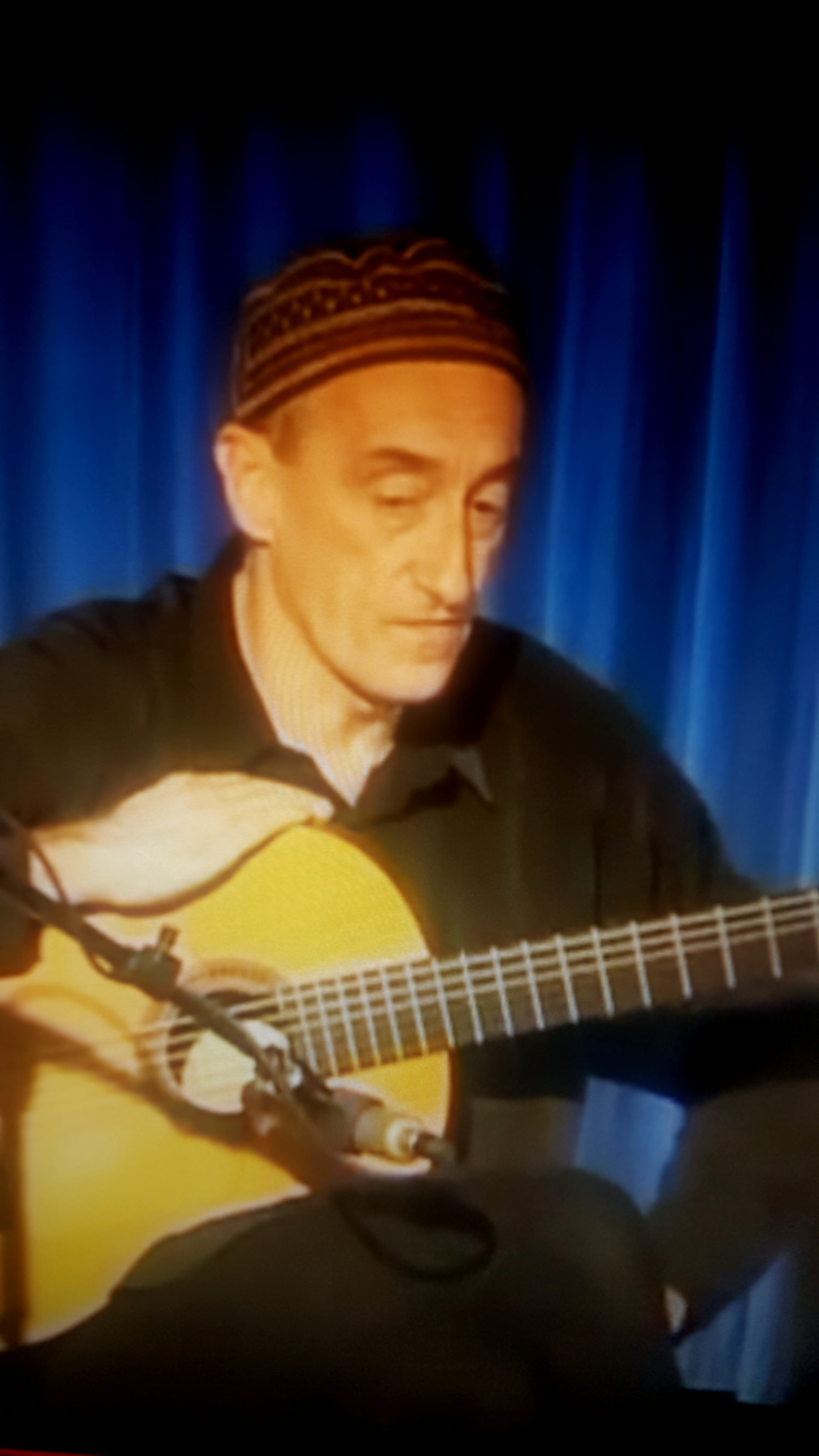 Miroslav Tadic solo performance on acoustic guitar